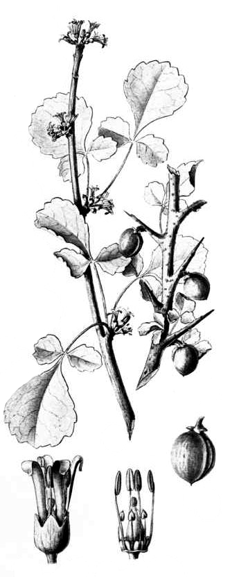 Commiphora africana, source of bdellion, an aromatic gum - "Die pflanzenwelt Ost-Afrikas und der nachbargebiete" Published in Berlin by D. Reimer, 1895.